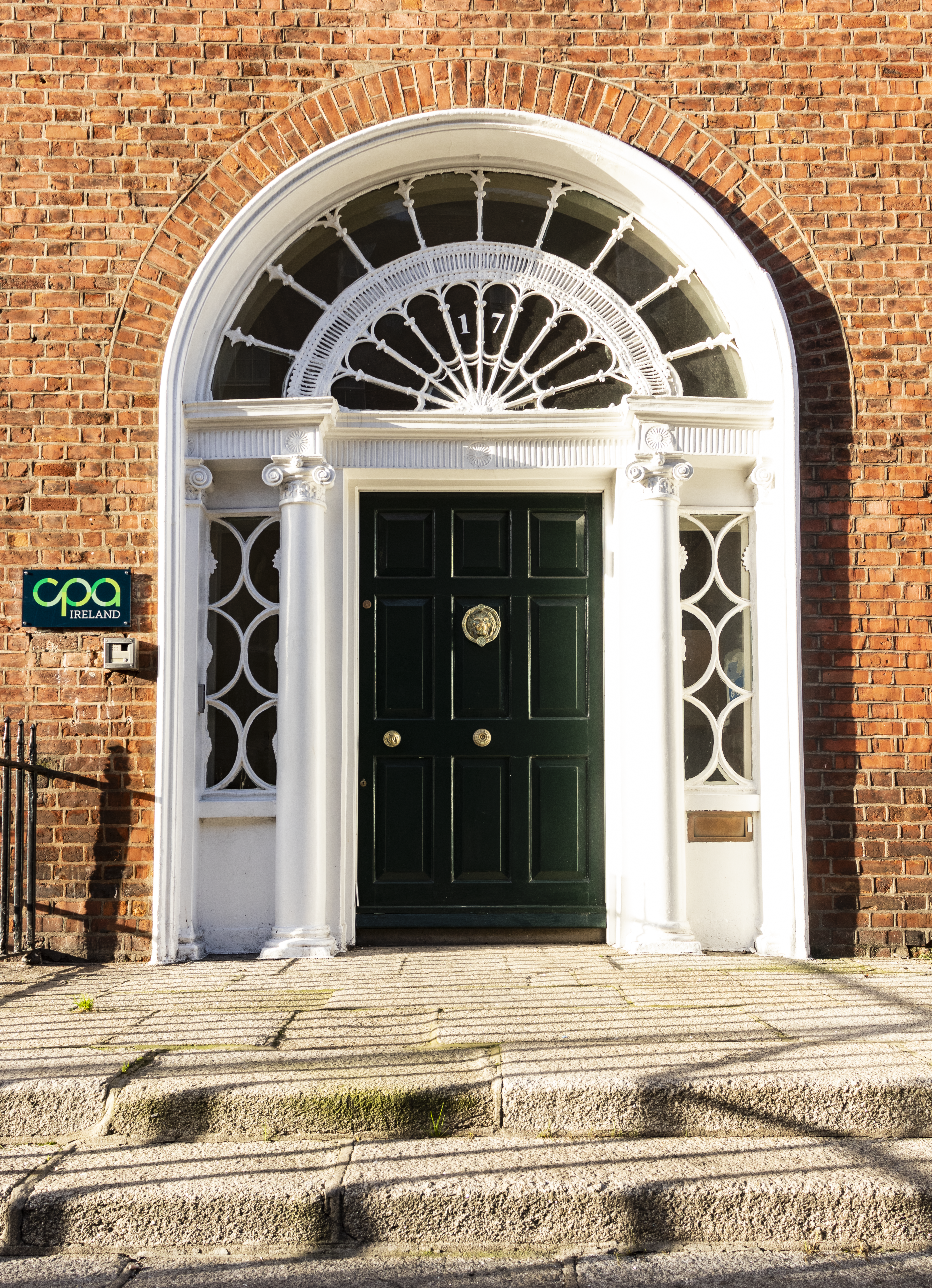 CPA Ireland Headquarters, 17 Harcourt Street